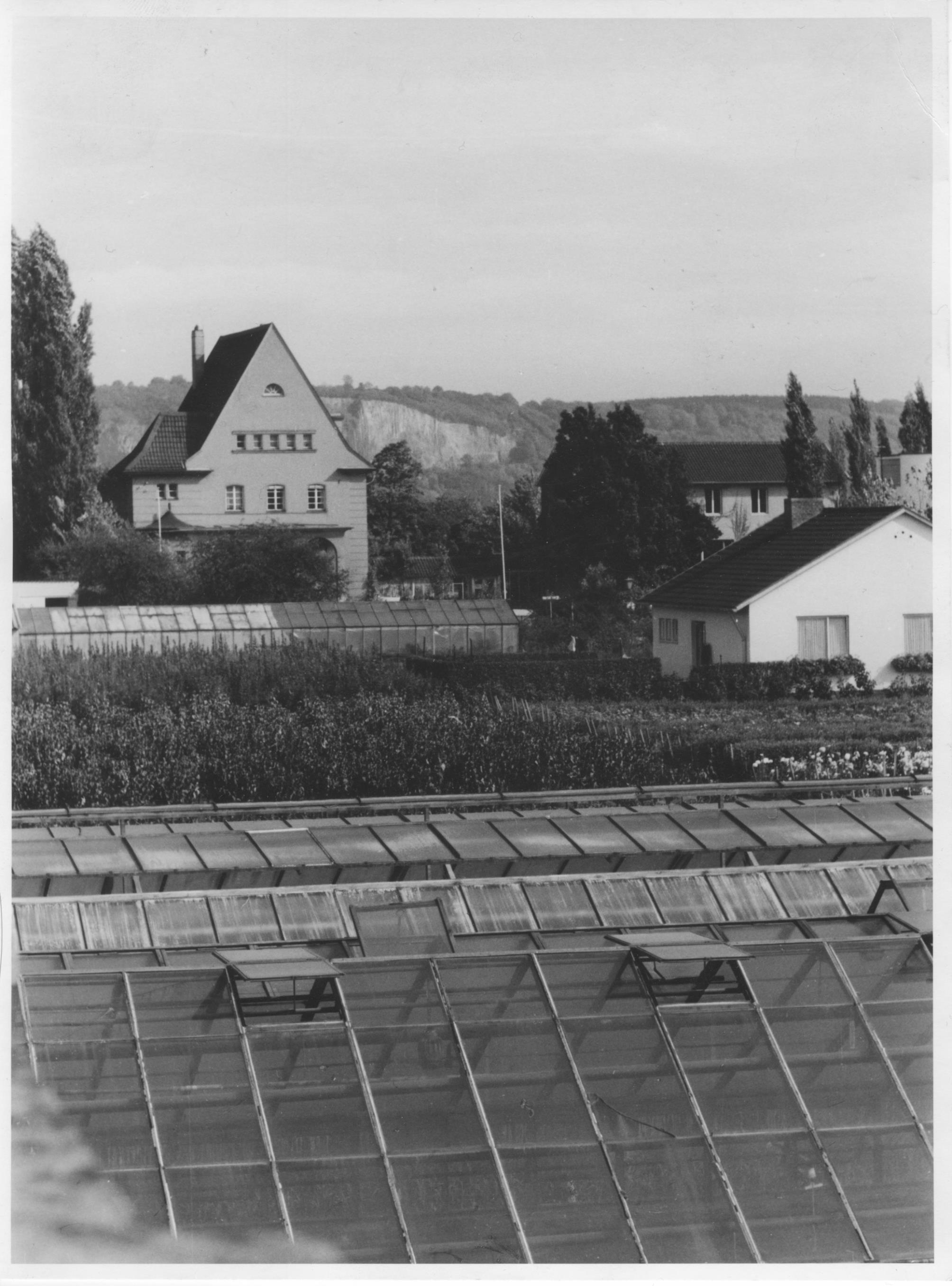 Gärtnerische Lehr- und Versuchsanstalt zu Friesdorf with Kuckstein in the background